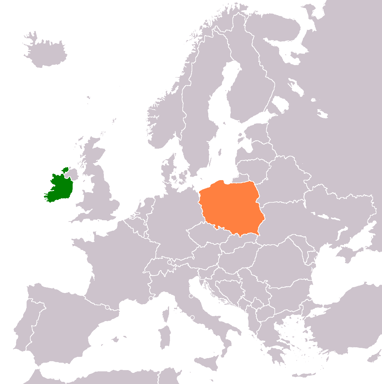 Ireland Poland Locator